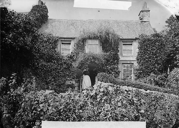 1 negative : glass, wet collodion, b&w ; 12 x 16.5 cm.